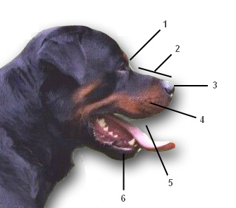 A dog's muzzle with numbers for specific anatomical structures. Numbering schema: 1 = Stop, 2 = muzzle , 3 = nose , 4 = maxillary , 5 = mouth, 6 = mandible